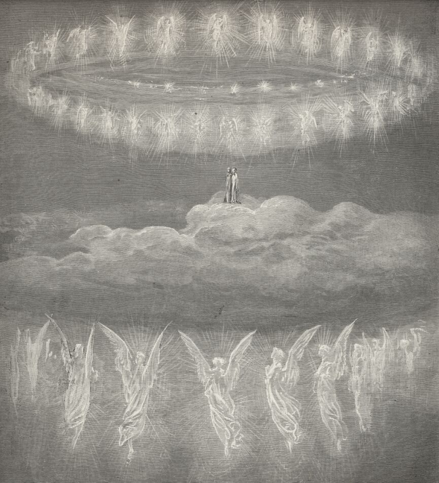 Illustration for Paradiso by Gustave Dore.